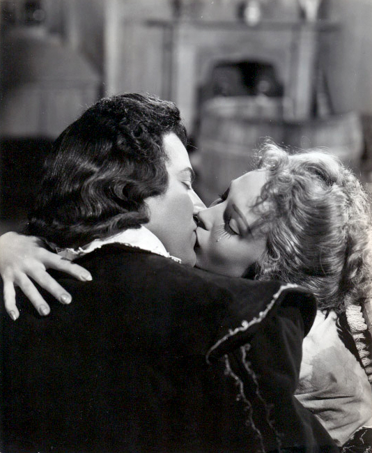 Promotional still from the 1947 film Forever Amber Caption reads as follows: 12. Bruce, who has married a girl in Virginia, begs Amber to let him take Little Bruce with him. Realizing she has lost his love forever she gives in and throws herself in his arms for a farewell kiss.